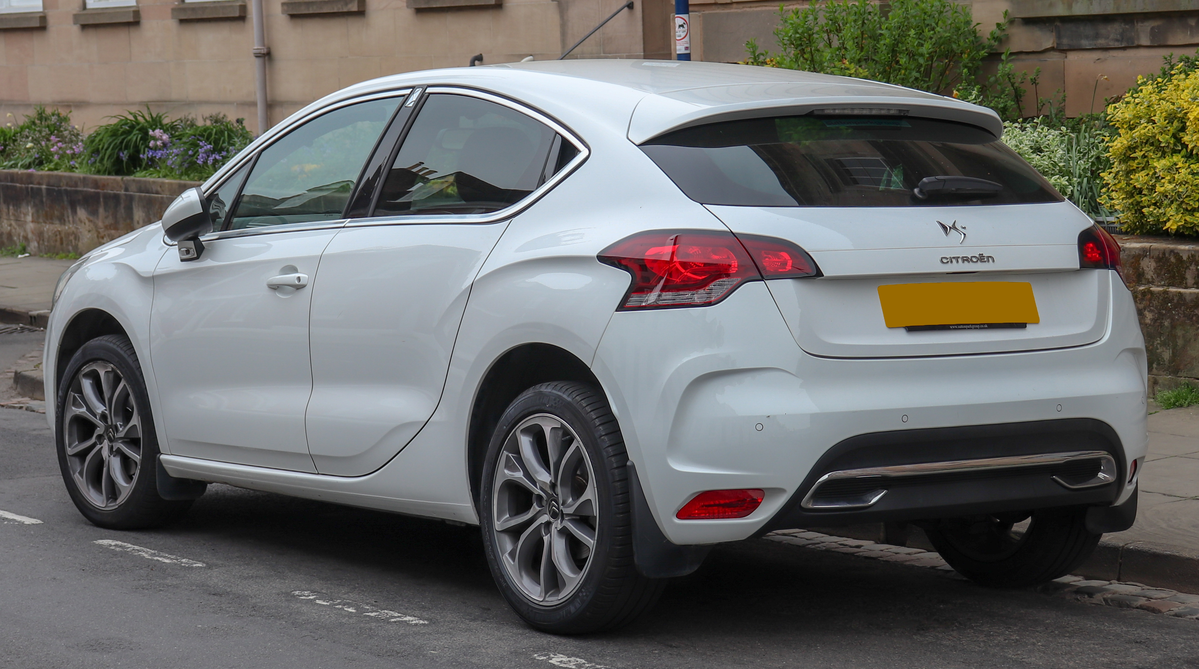 2014 Citroen DS4 DStyle Airdream E-HDI 1.6 Rear Taken in Warwick